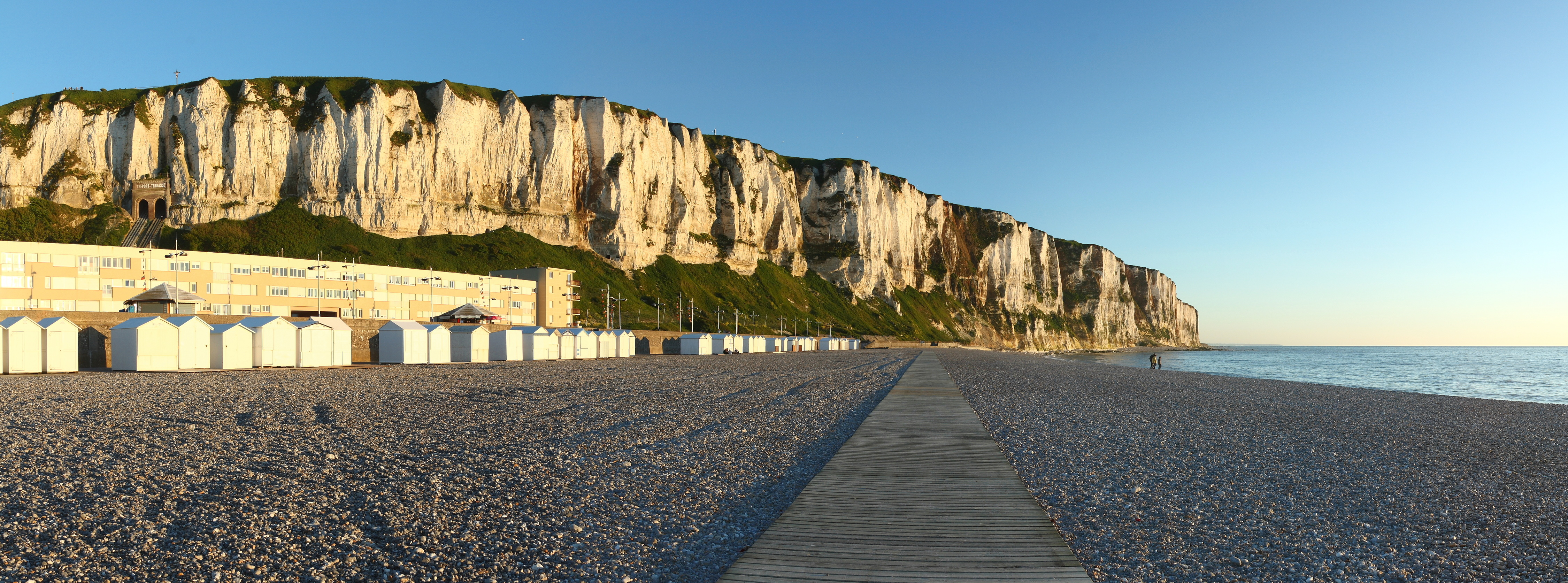 Cliffs of Le Tréport city, Seine Maritime, France. This panorama features the funicular, which give access to the summit of the cliffs, in its 2006 version.